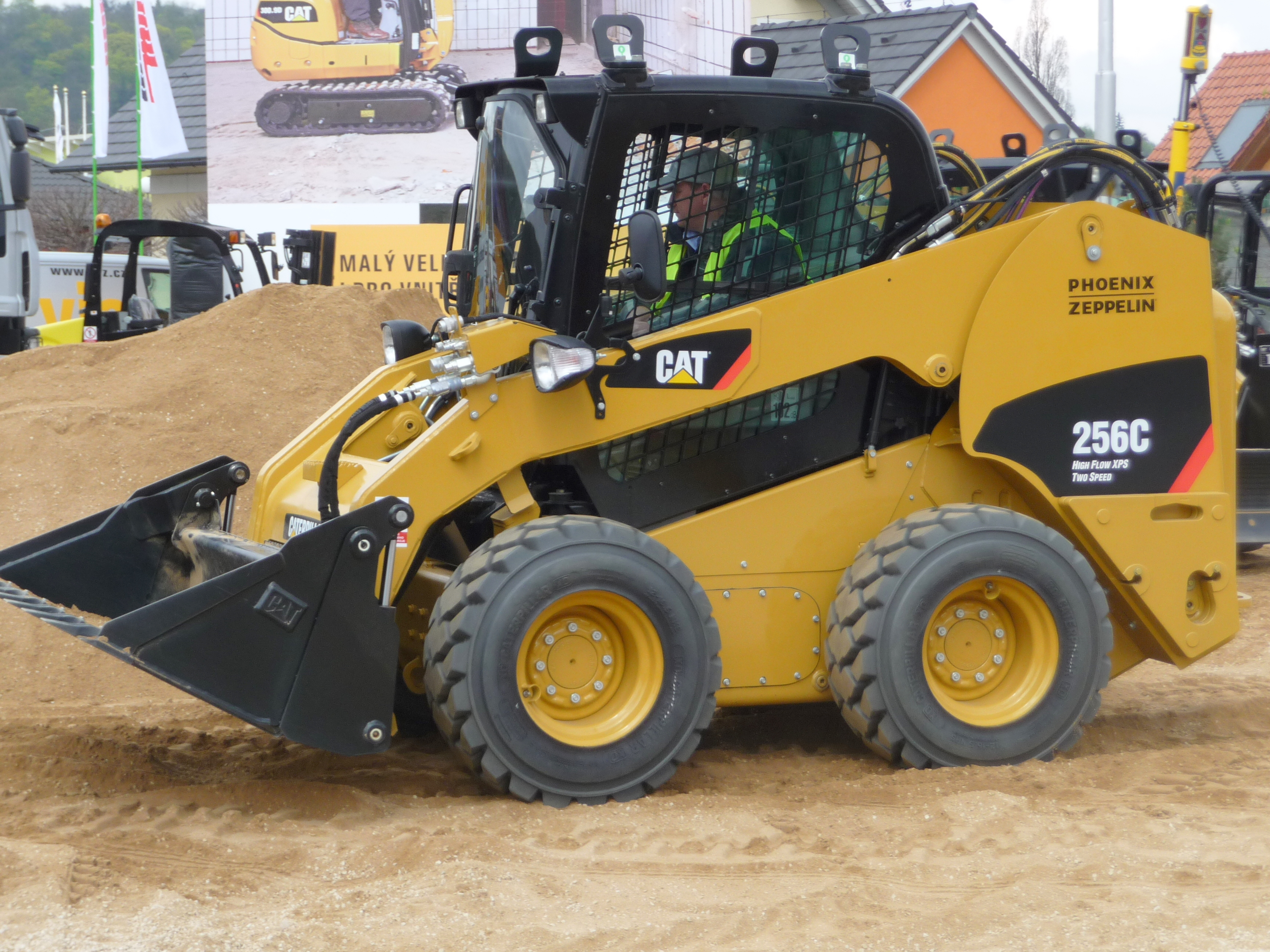 Skid steer loader Caterpillar 256C in exposition of Phoenix-Zeppelin, Building Fairs Brno 2011 -10-5-3-2◄►+2+3+5+10